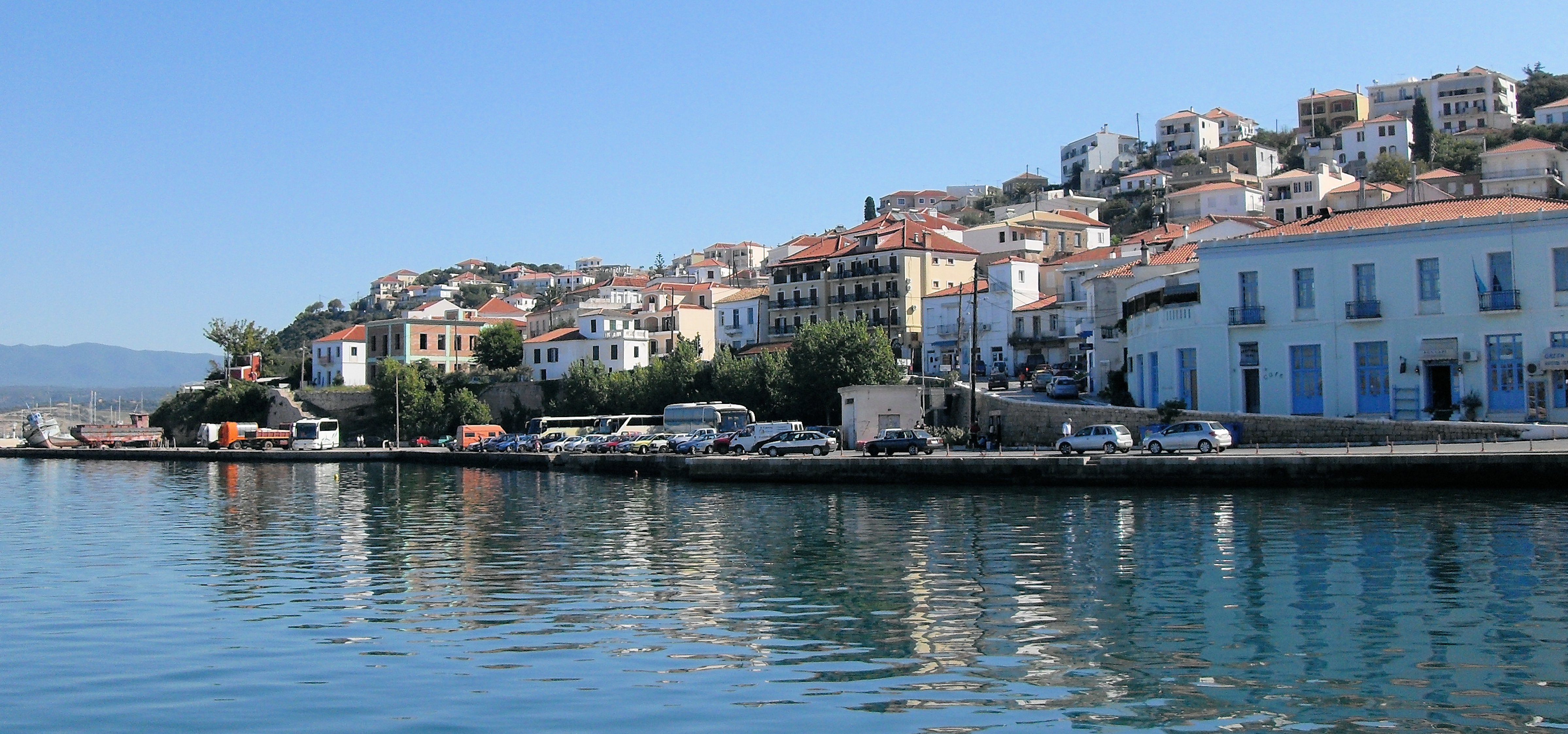 the port of Pylos